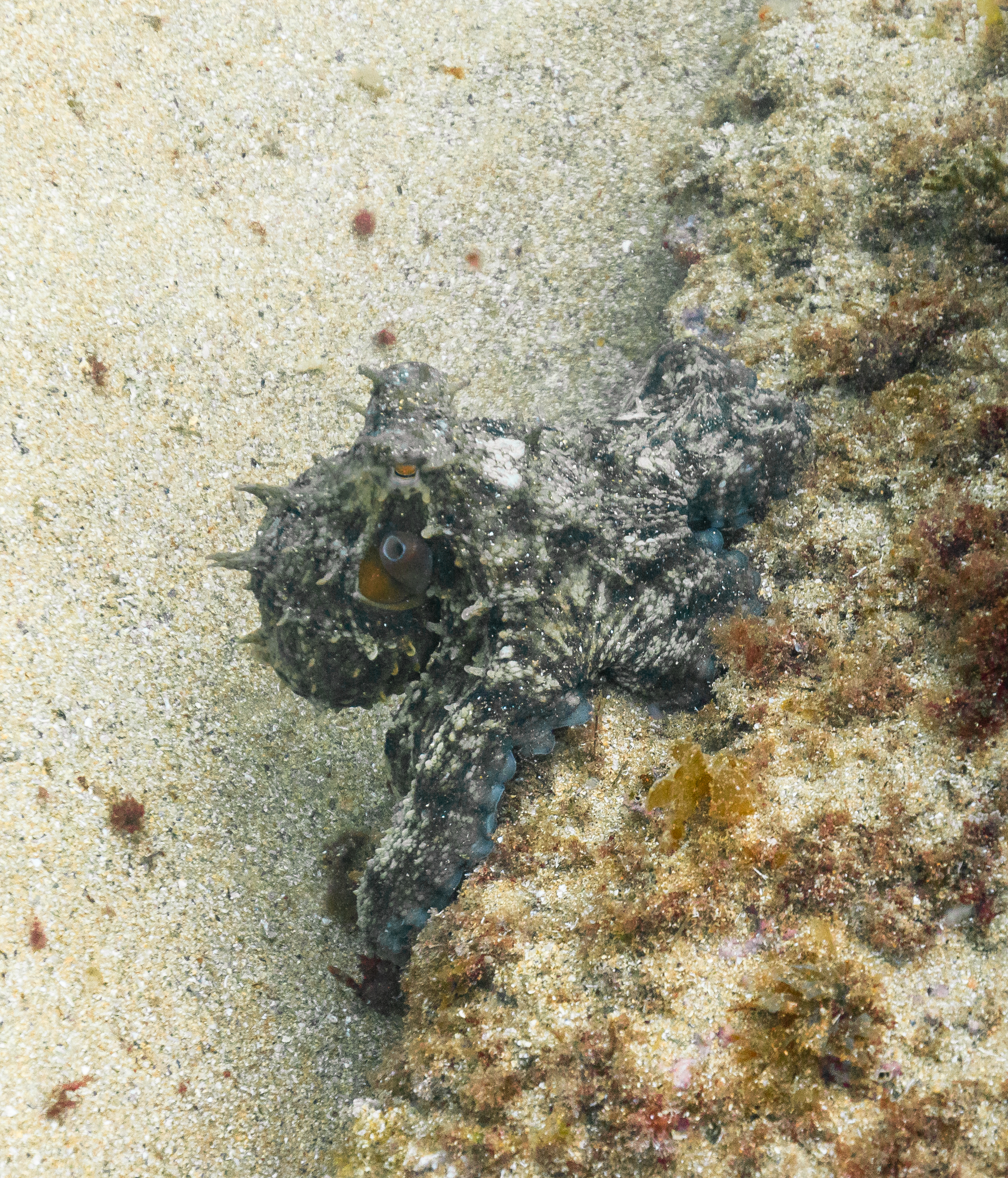 Common octopus (Octopus vulgaris), Mouro Island, Santander, Spain